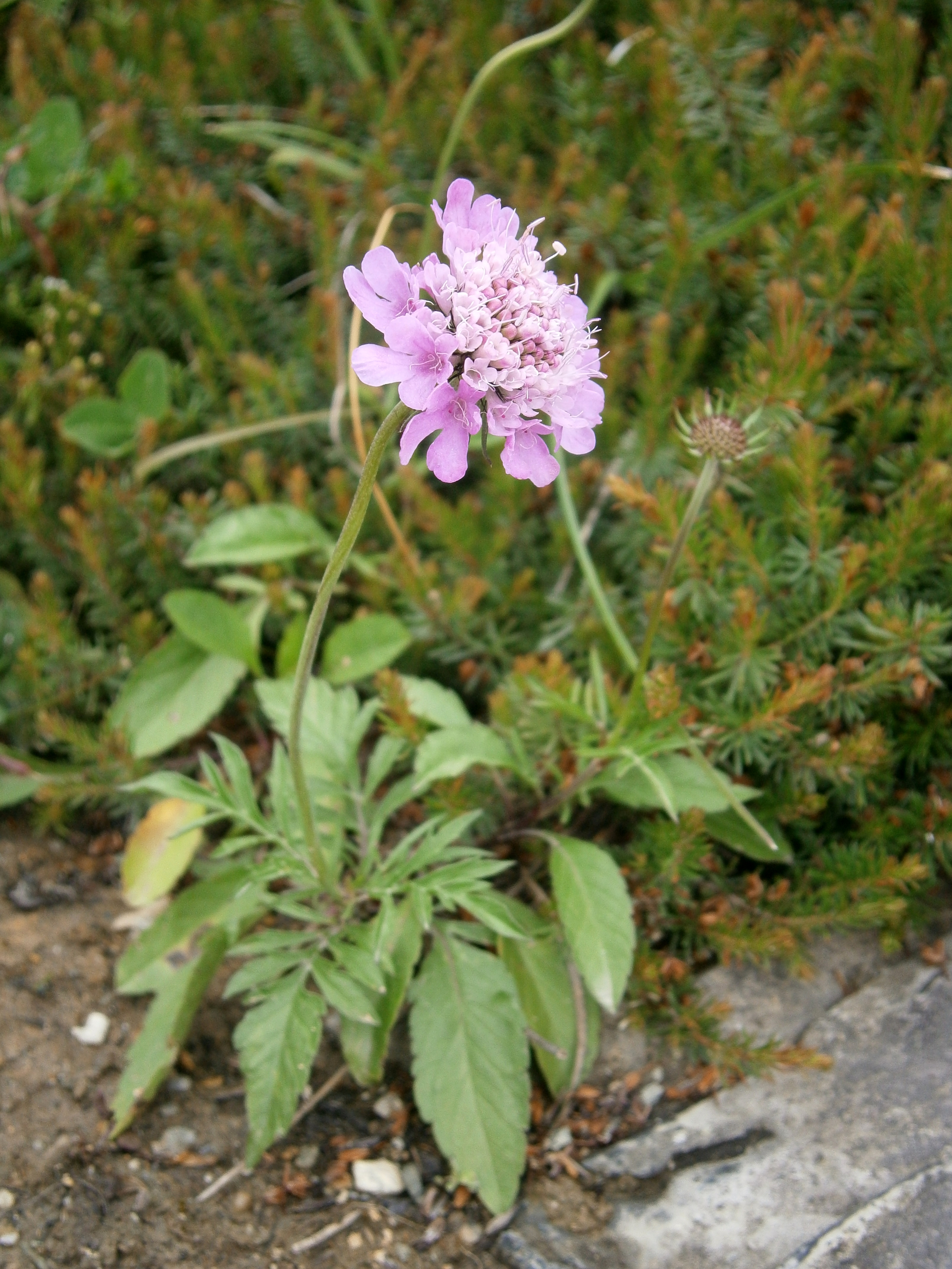 Scabiosa lucida